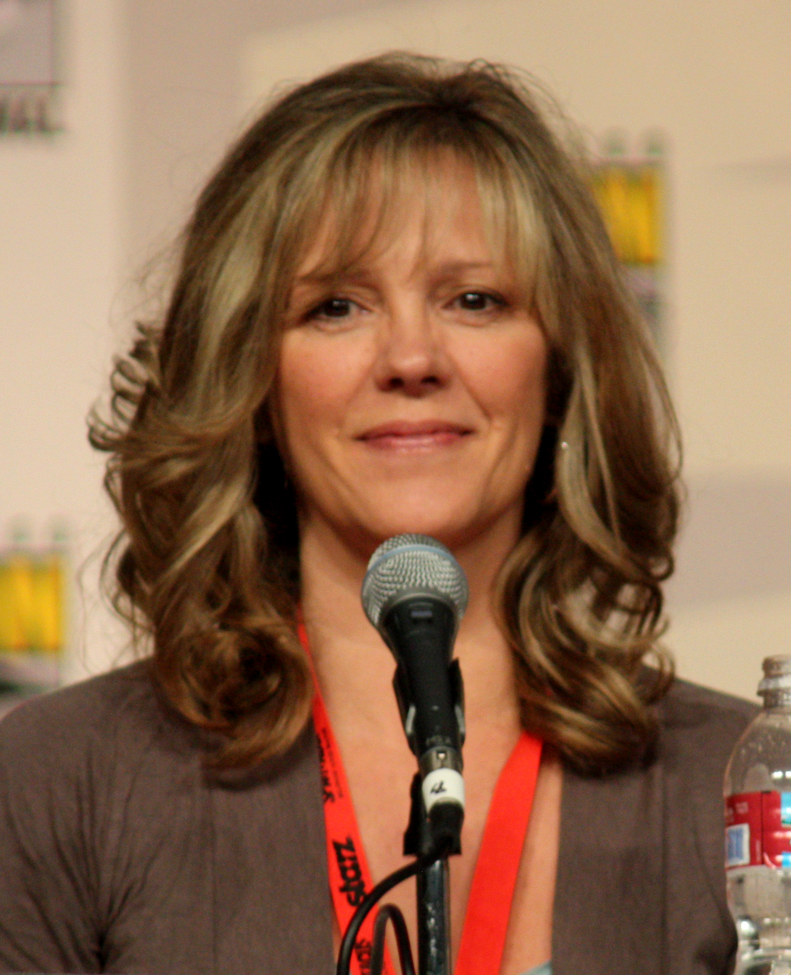 Wendy Schaal at the 2009 Comic Con in San Diego.